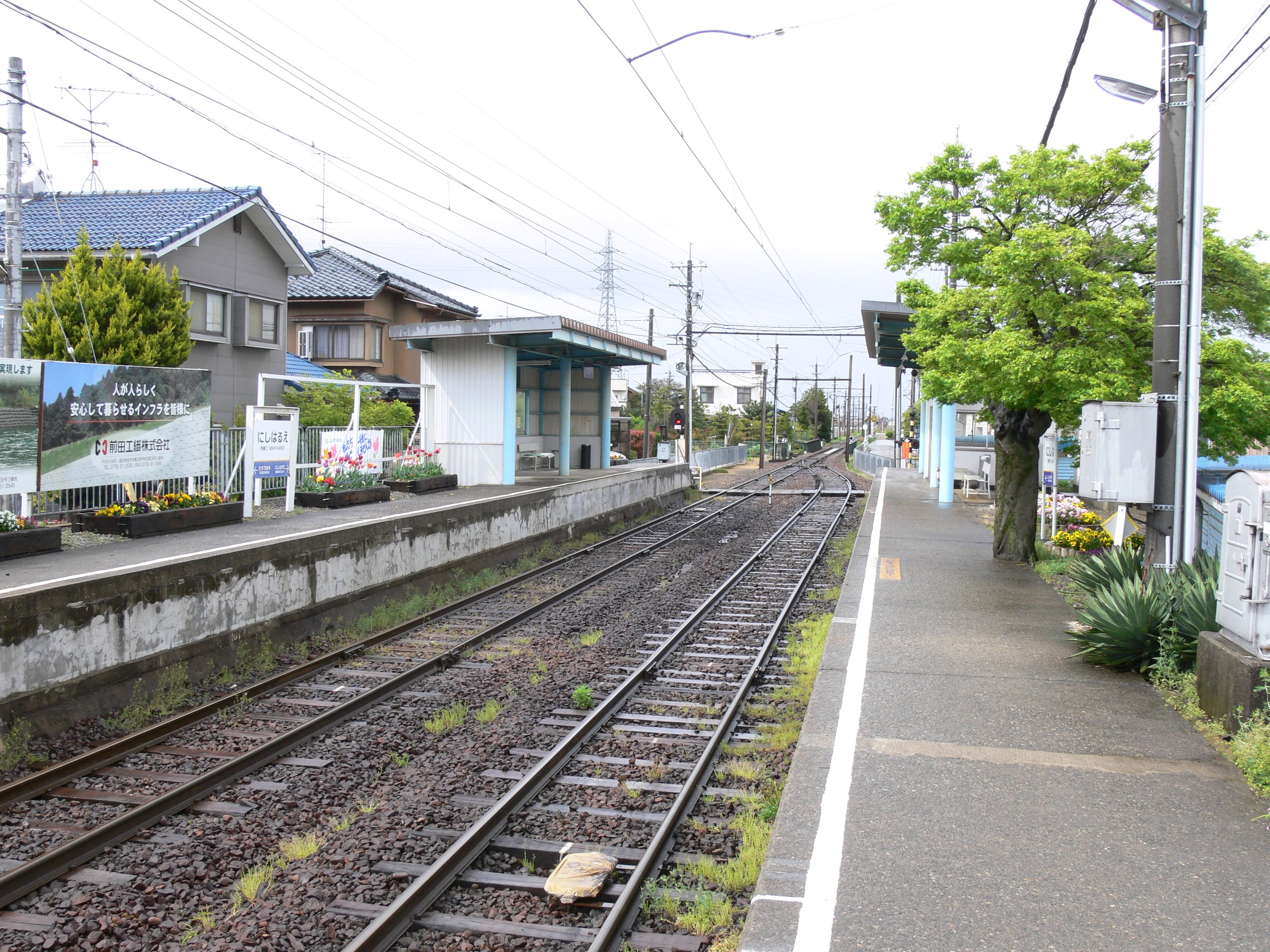 Nishi-Harue Station 西春江駅全景